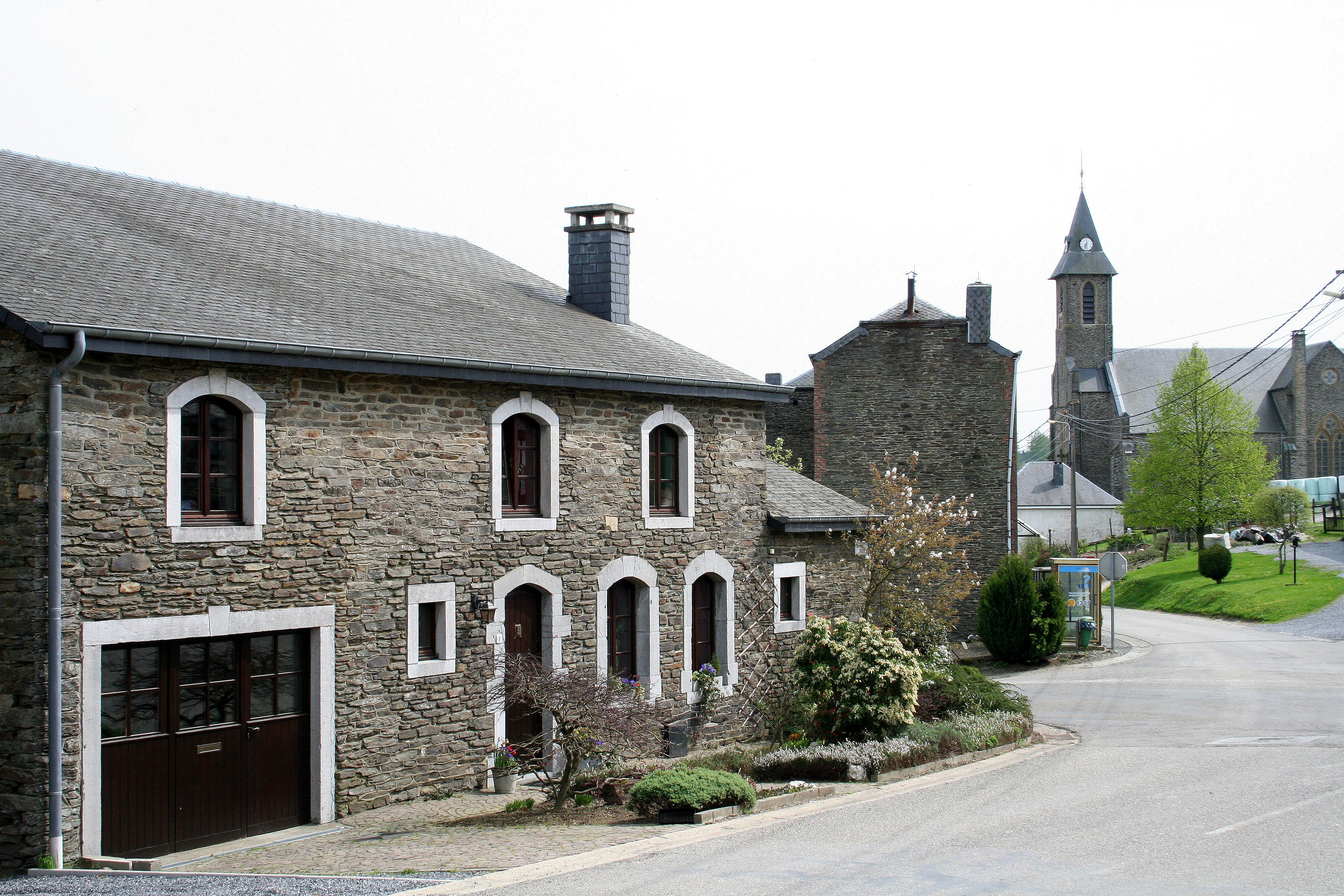 Orchimont (Belgium), the neighbourhood of thr church.